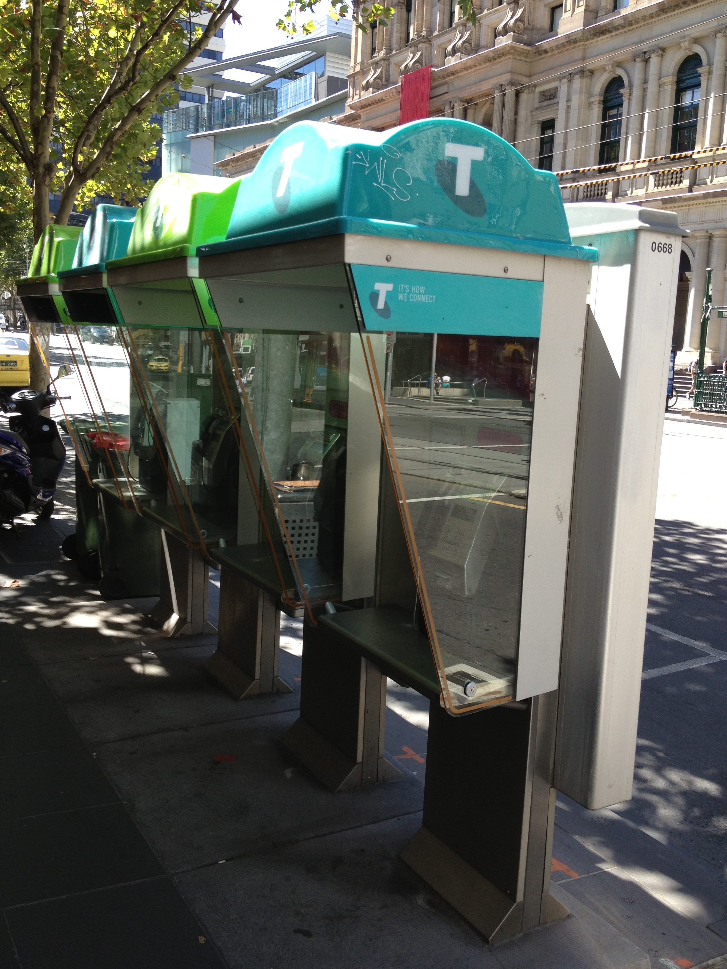 Telstra pay phone in the Melbourne CBD.